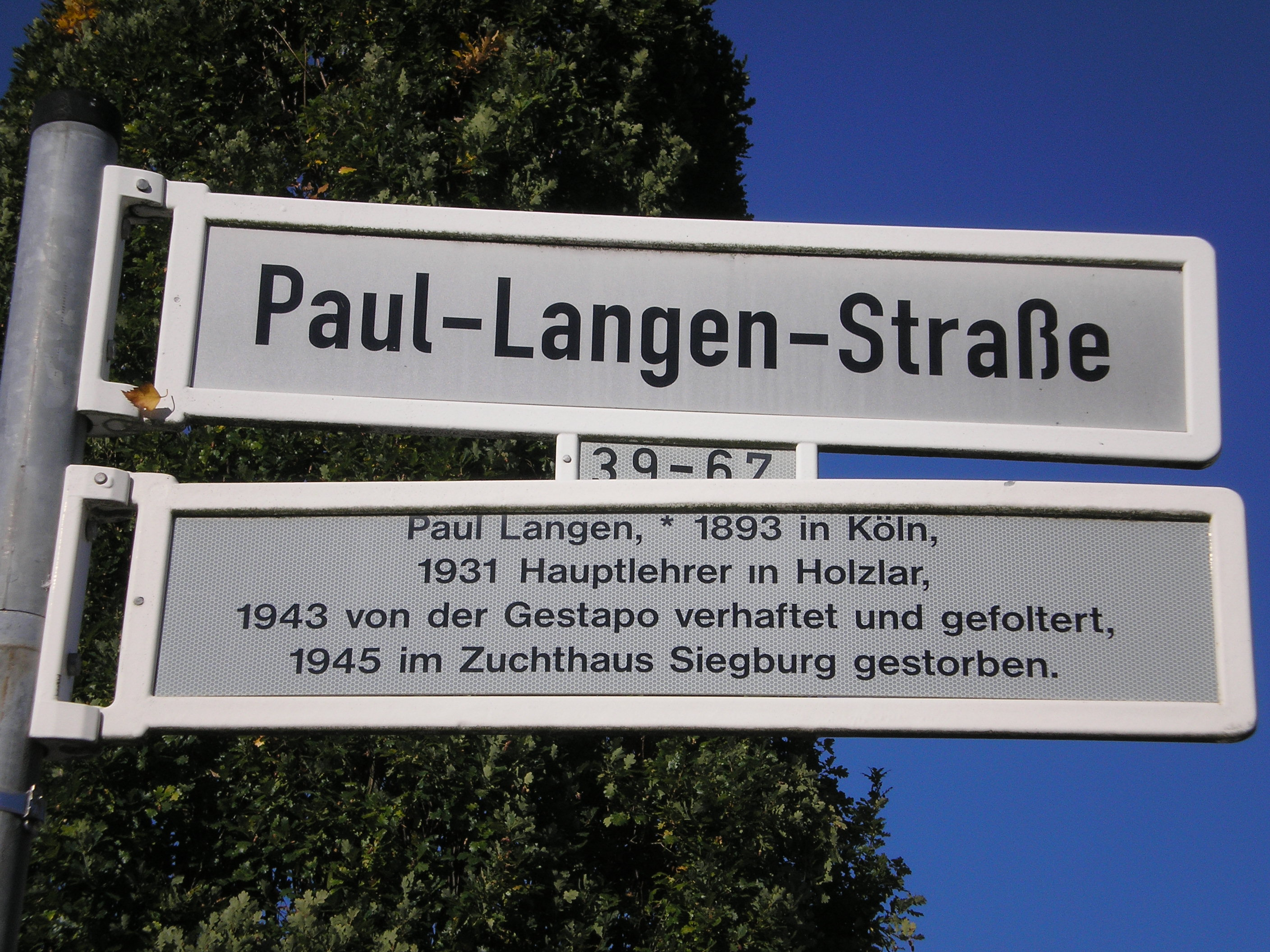 Street sign of the Paul-Langen-Straße in Holzlar, Germany. The street was named after Paul Langen, an opponent and victim of National Socialism, in 1954 (originally as Langenstraße). It was renamed to the current Paul-Langen-Straße in 1962. The lower sign reads: "Paul Langen, born 1893 in Cologne. In 1931 he became headmaster in Holzlar. In 1943 he was arrested and tortured by the Gestapo. In 1945 he died in the Siegburg penitentiary"